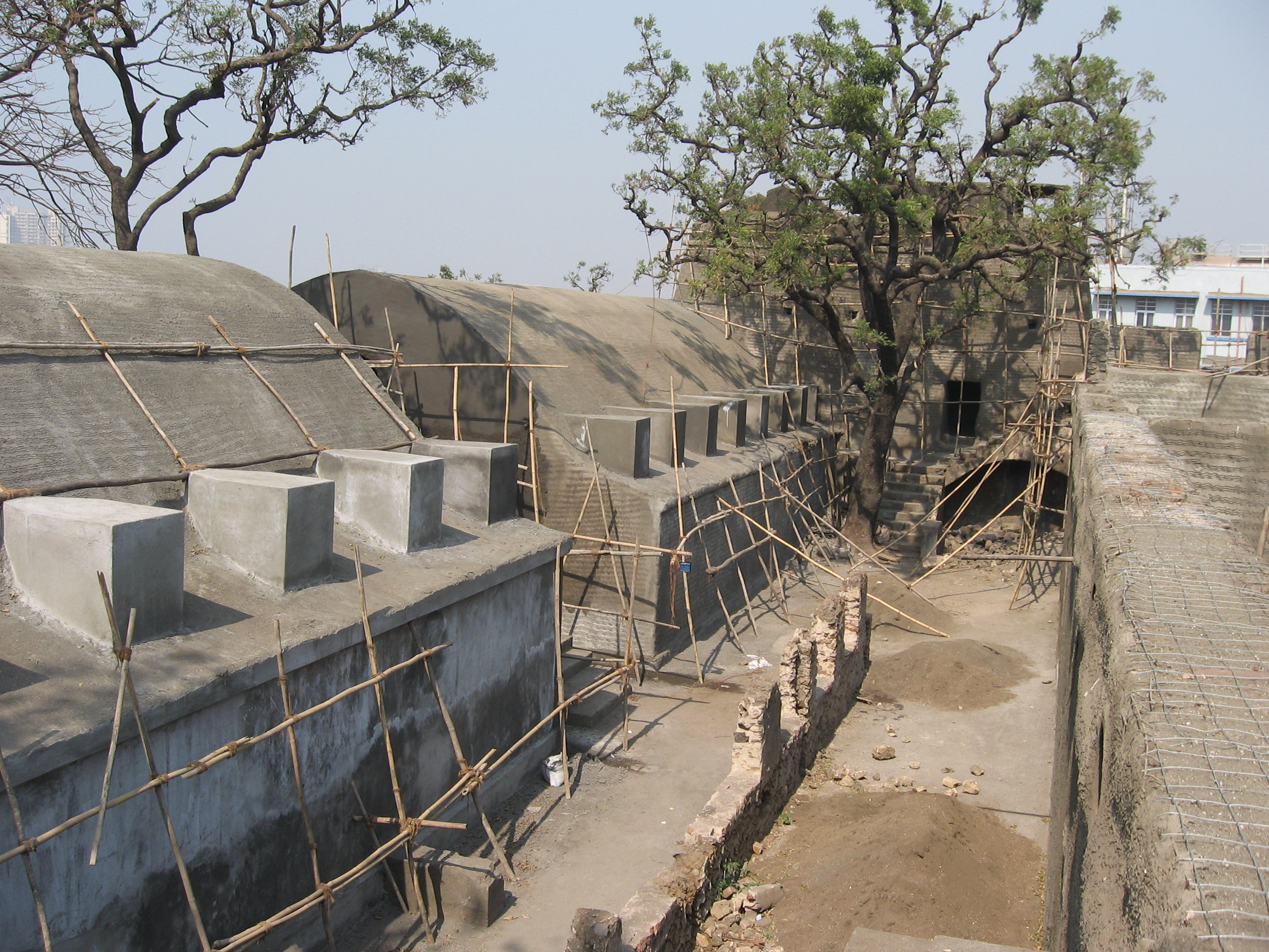 Sewri Fort in Mumbai was built by the British in 1680, The fort, now in a dilapidated condition, overlooks the Mumbai harbour and the Sewri mudflats.